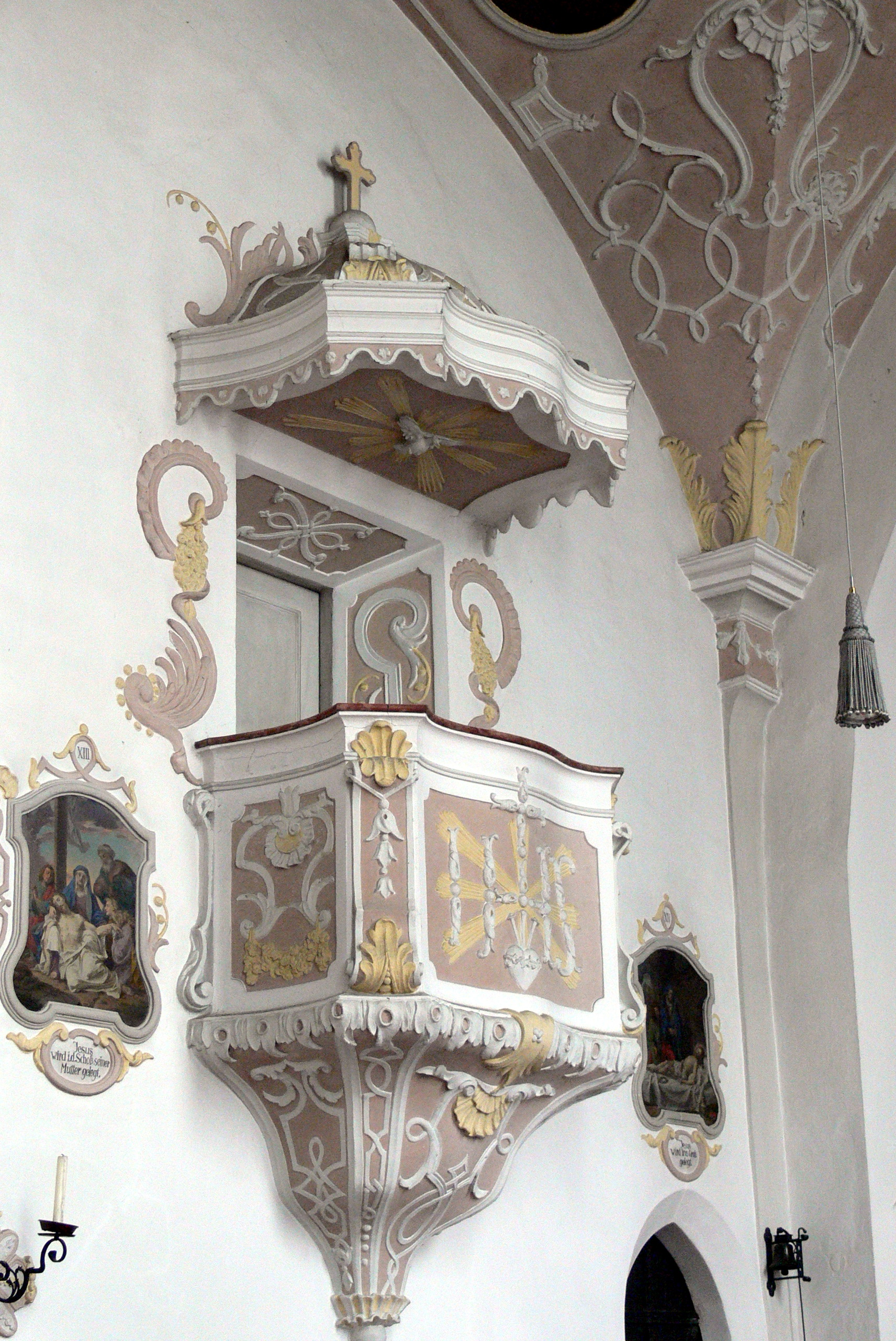 Hospital church Saint John the Baptist in Bad Reichenhall - Baroque revival pulpit ( 1911 ).